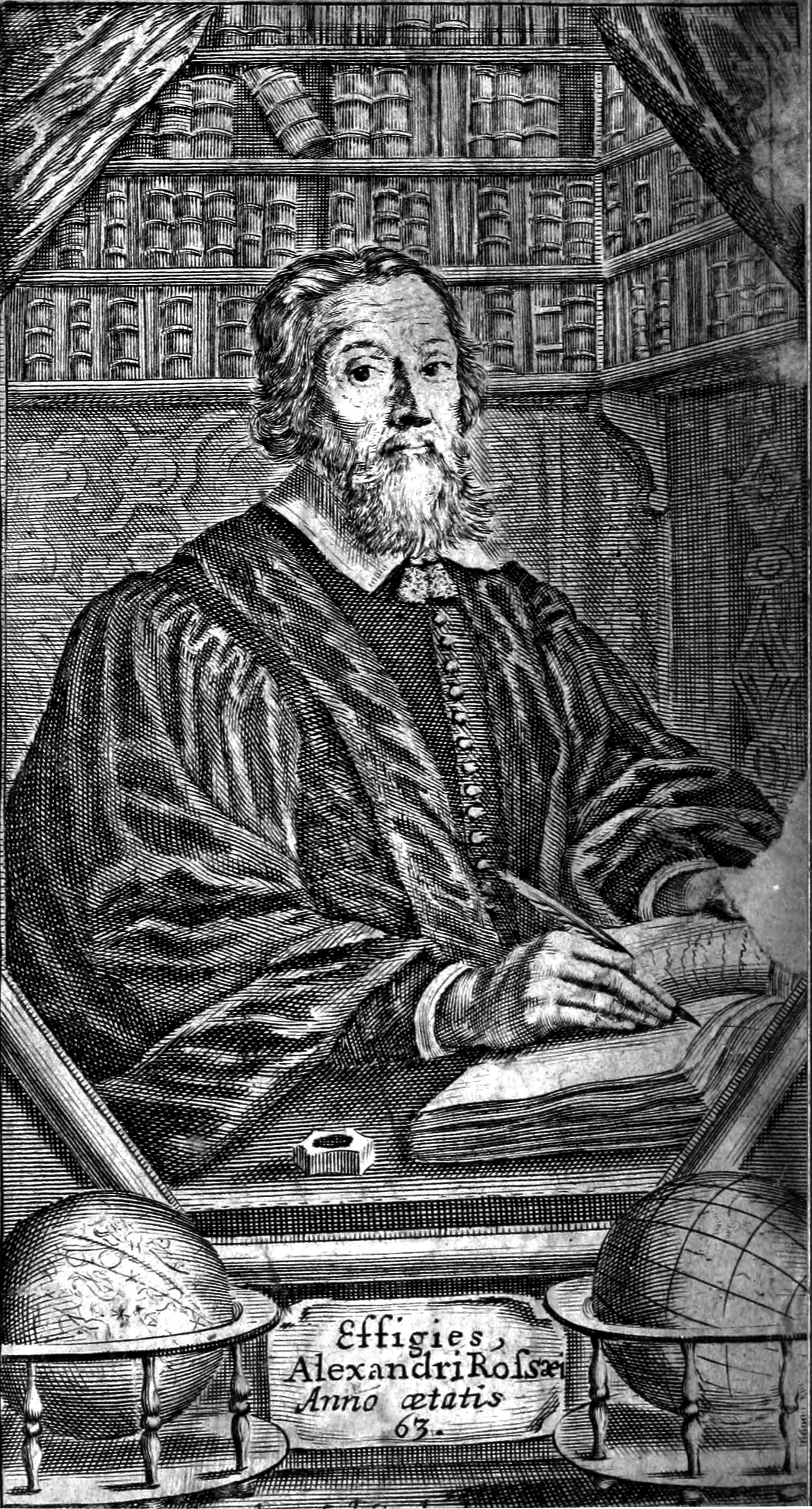 Portrait of Alexander Ross, page 4 of File:The abridgment of Christian divinitie.djvu